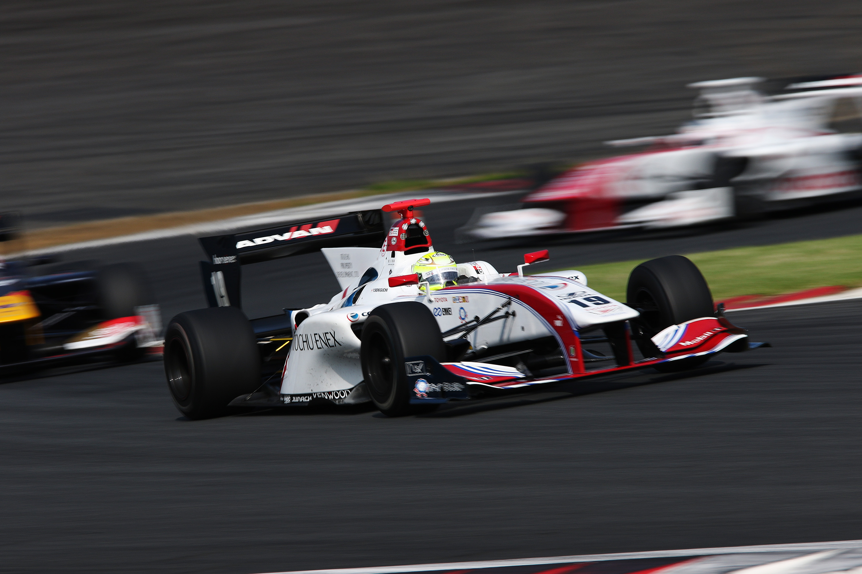 2017.07.09 SUPER FORMULA Rd.3 Fuji Speedway ITOCHU ENEX TEAM IMPUL 19 関口 雄飛 [7D2_0308ks]